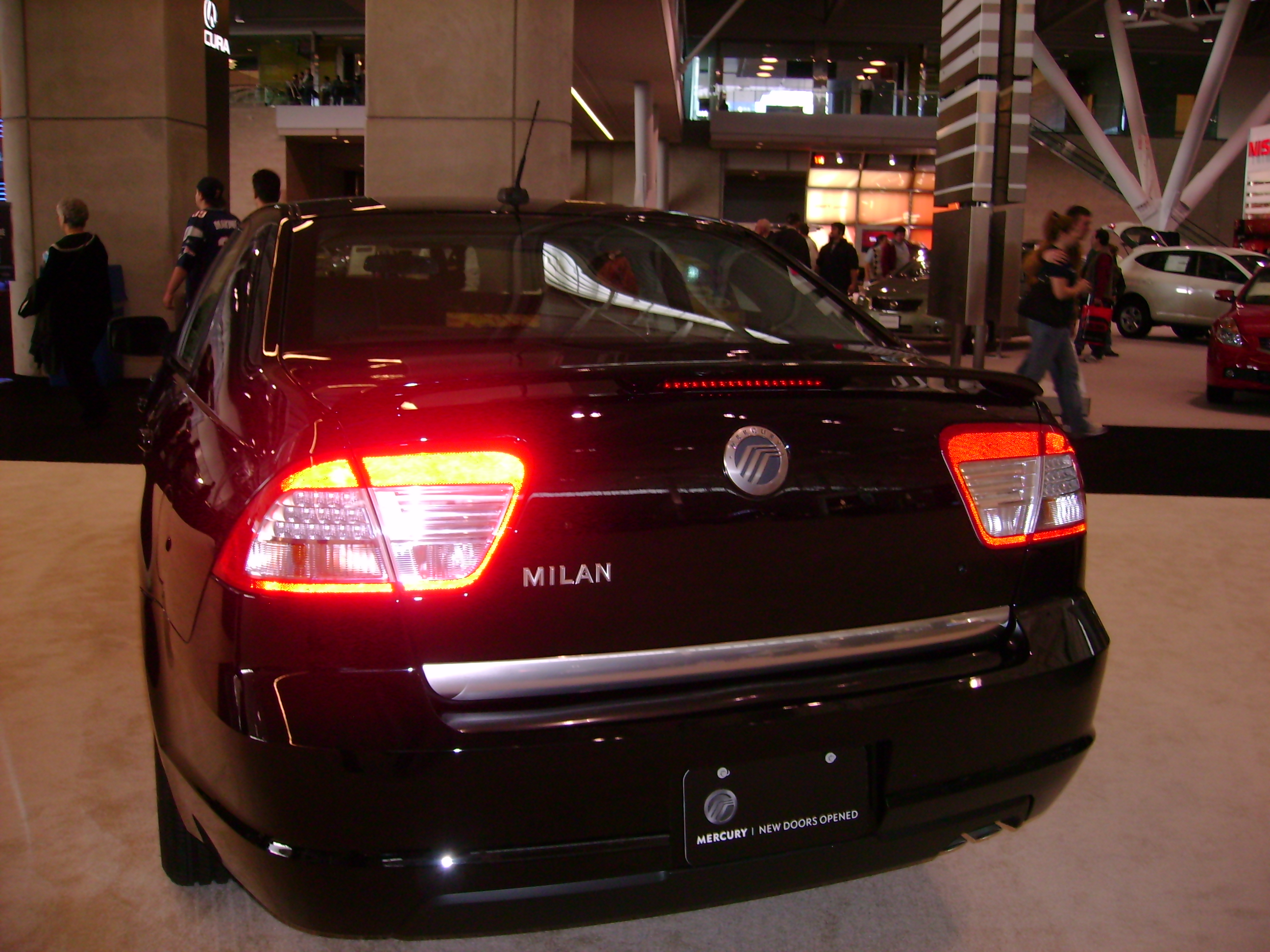 2008 Mercury Milan photographed in USA.